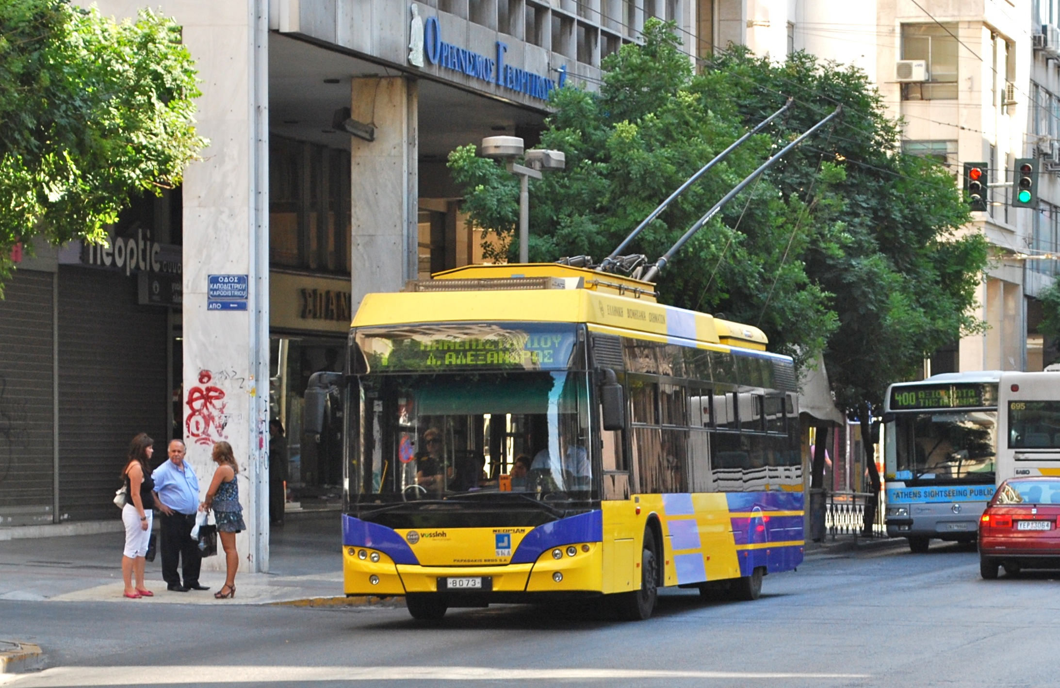 Athens trolleybus 8073, a 2004 Neoplan N6216, on Patission Street, at the intersection with Kapodistriou Street.